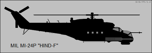 side-view silhouette of a Mil Mi-24P "Hind-F"